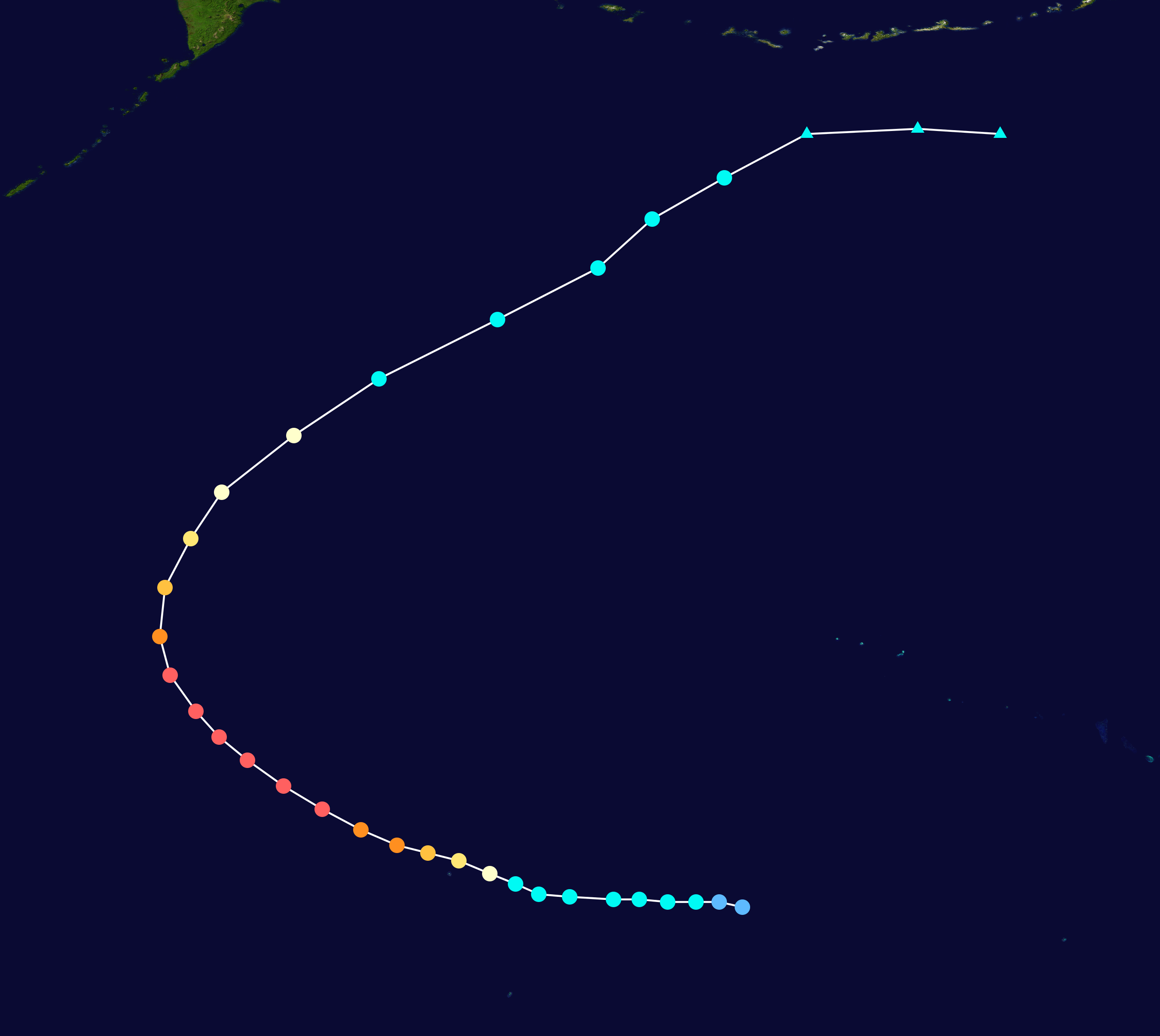 Typhoon Olive (1952) track. Uses the color scheme from the Saffir-Simpson Hurricane Scale.